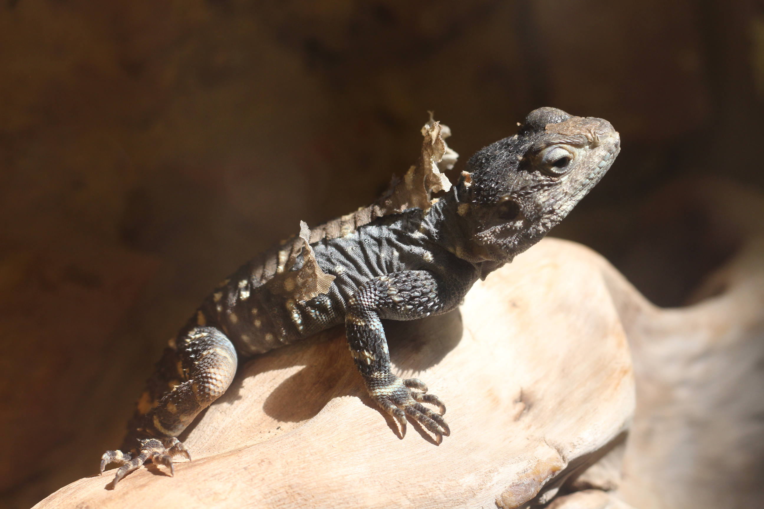 Agama Hardun Moulting. This image has been originally created as the illustration for skóra na torebki entry in crosswords dictionary. It has been released under CC-BY-3.0 license.